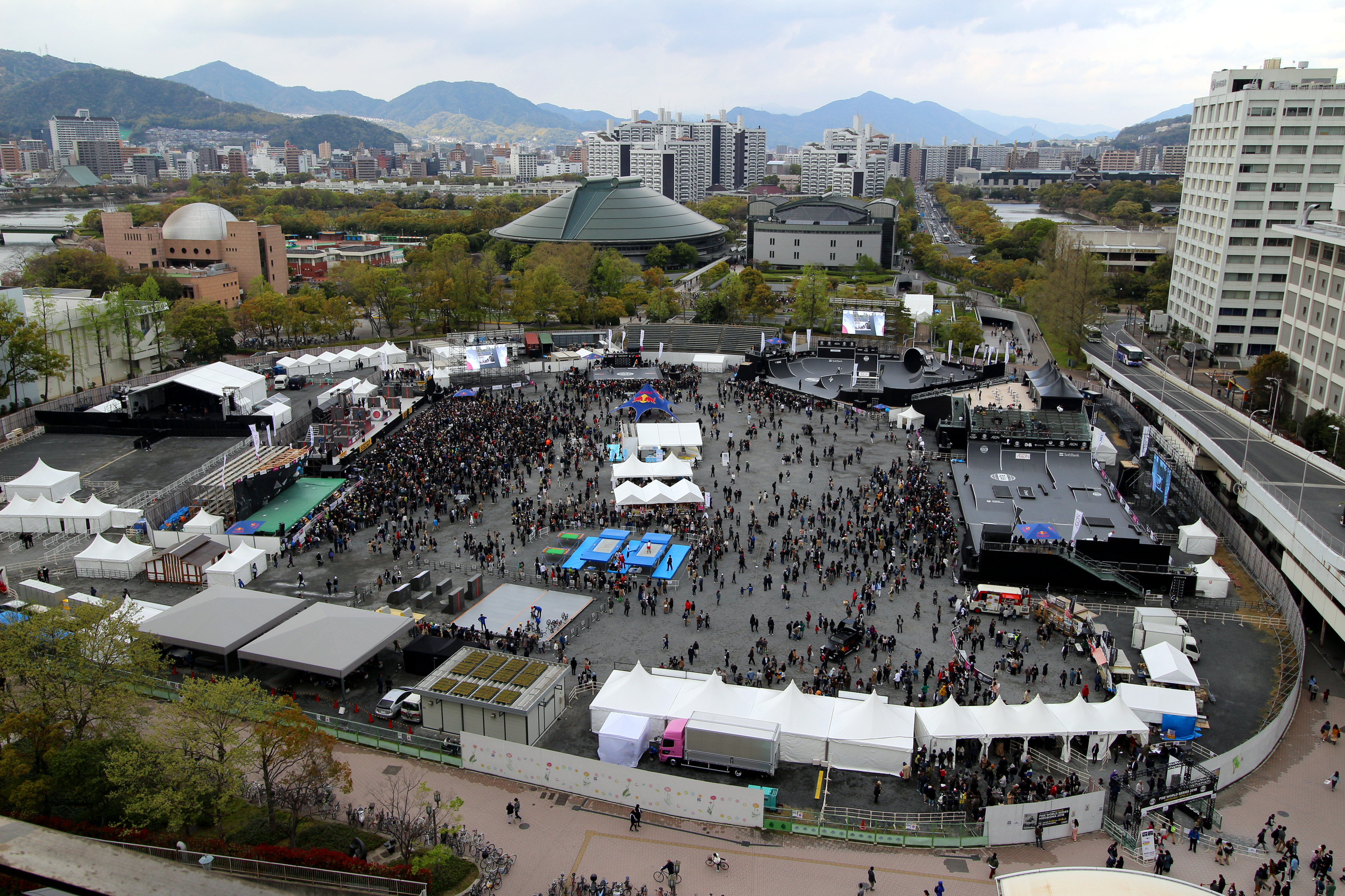 FISE event in Hiroshima, Japan.